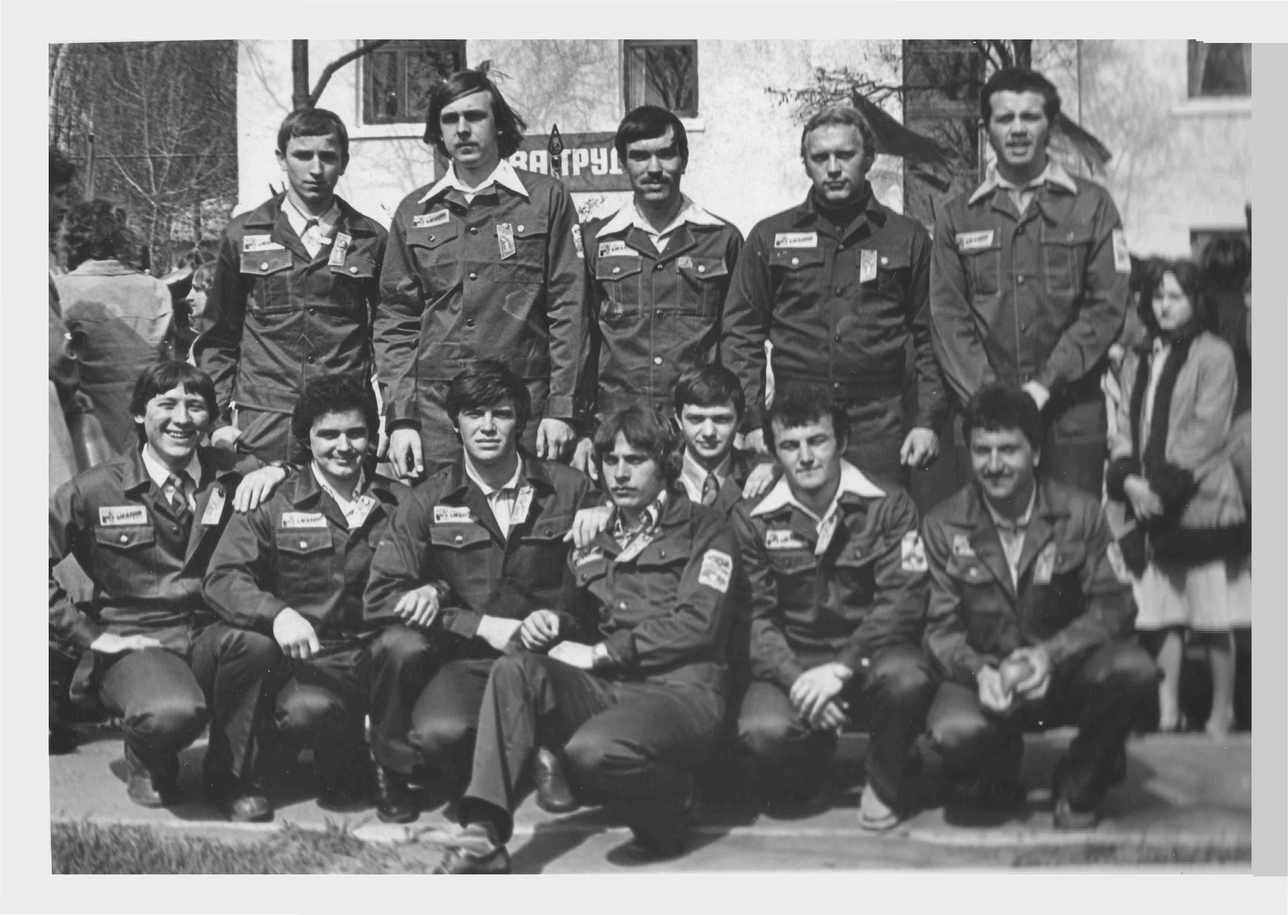 Stakhanov (Kadiyivka). Student Squad «Stakhanovets». May 1, 1979